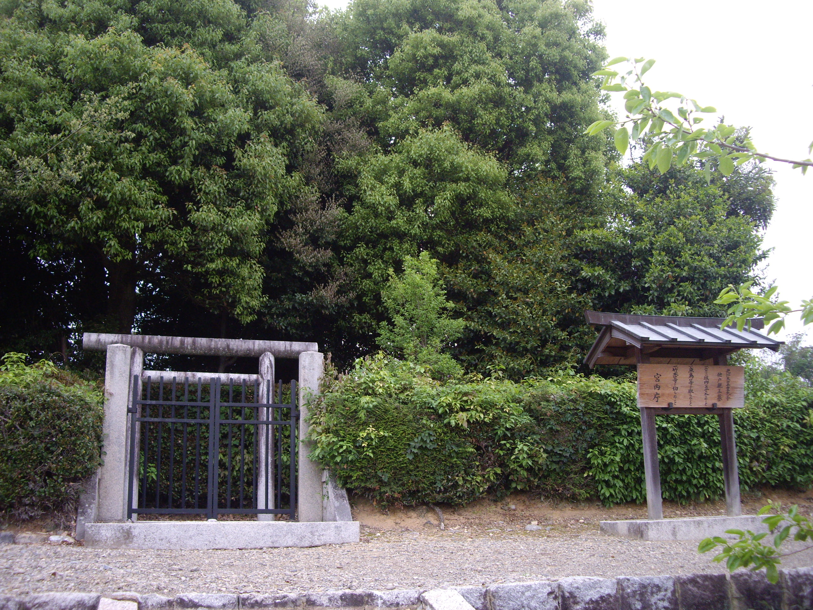 The Tomb of Prince Osabe, in Gojō, Nara Prefecture, Japan